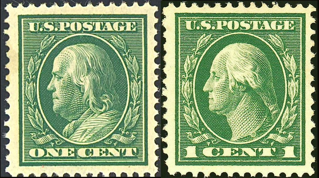 US Postage stamps, Washington-Franklin issues, two 1-cent examples.